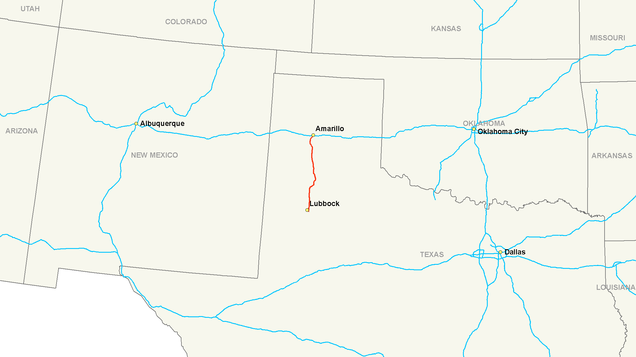 Map of Interstate 27